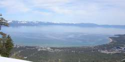 Lake Tahoe, viewed from near the top of the Heavenly Ski Resort Tram